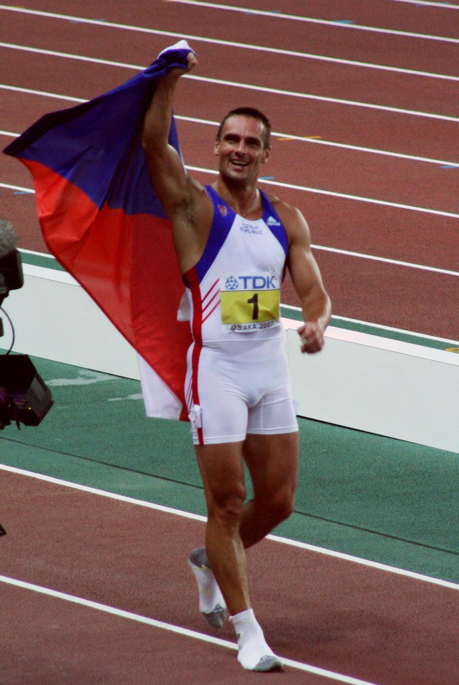 World Athletics Championships 2007 in Osaka - Roman Šebrle celebrating after winning gold in the decathlon